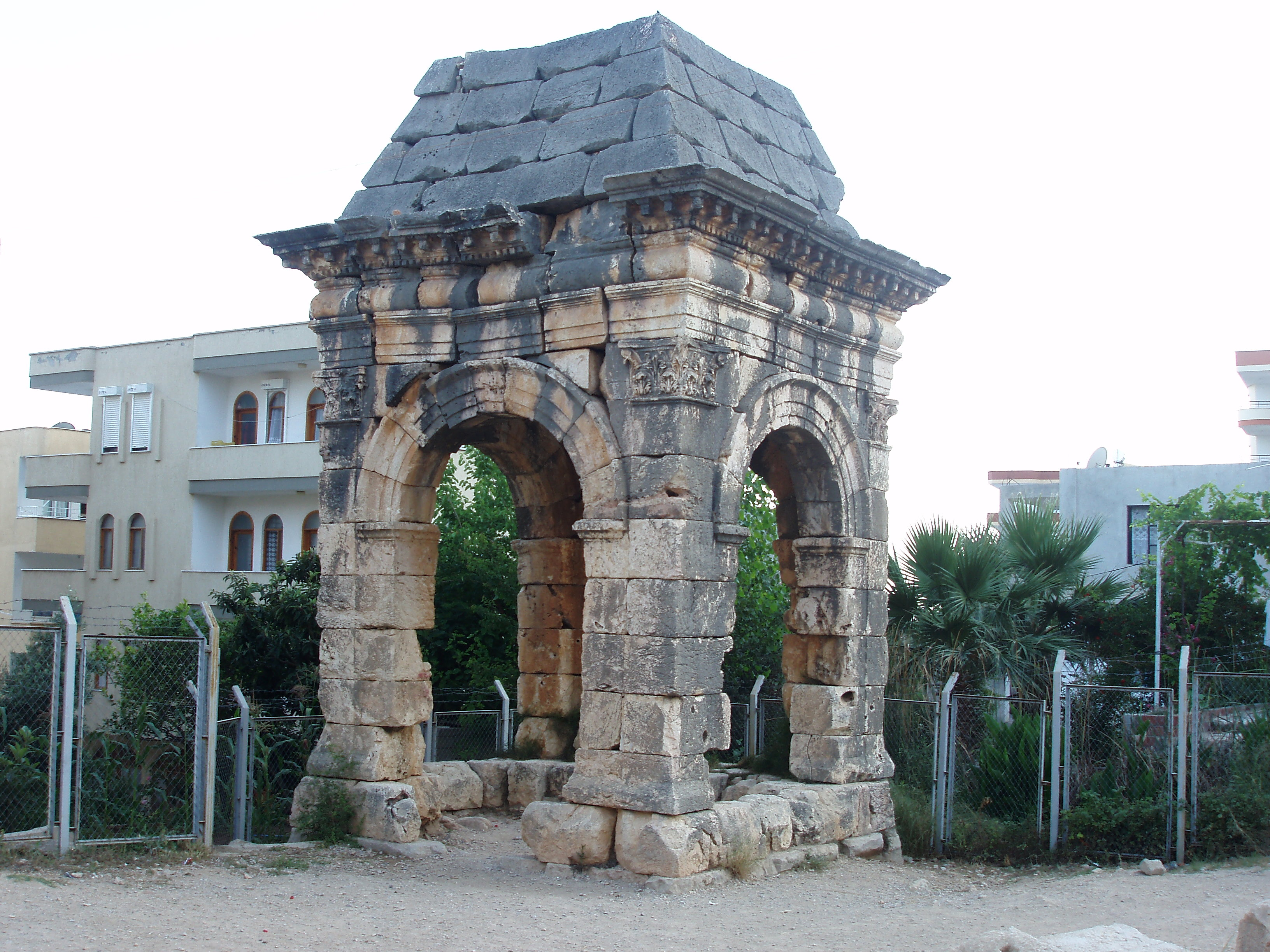 Dört Ayak ("Four Feet") Monument Tomb (Aydıncık, Mersin)